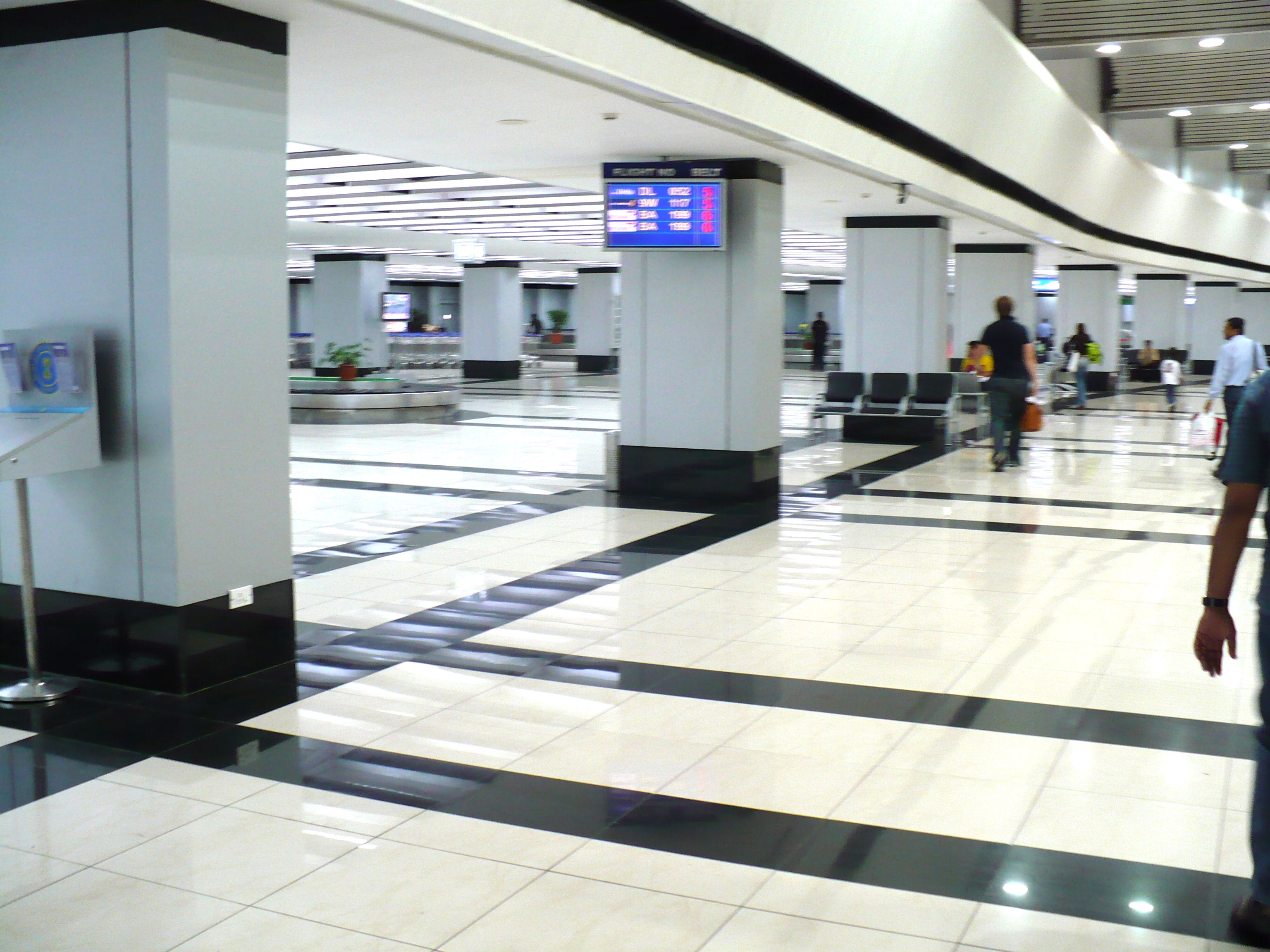 Mumbai International Airport Taken by Nikhil Kulkarni